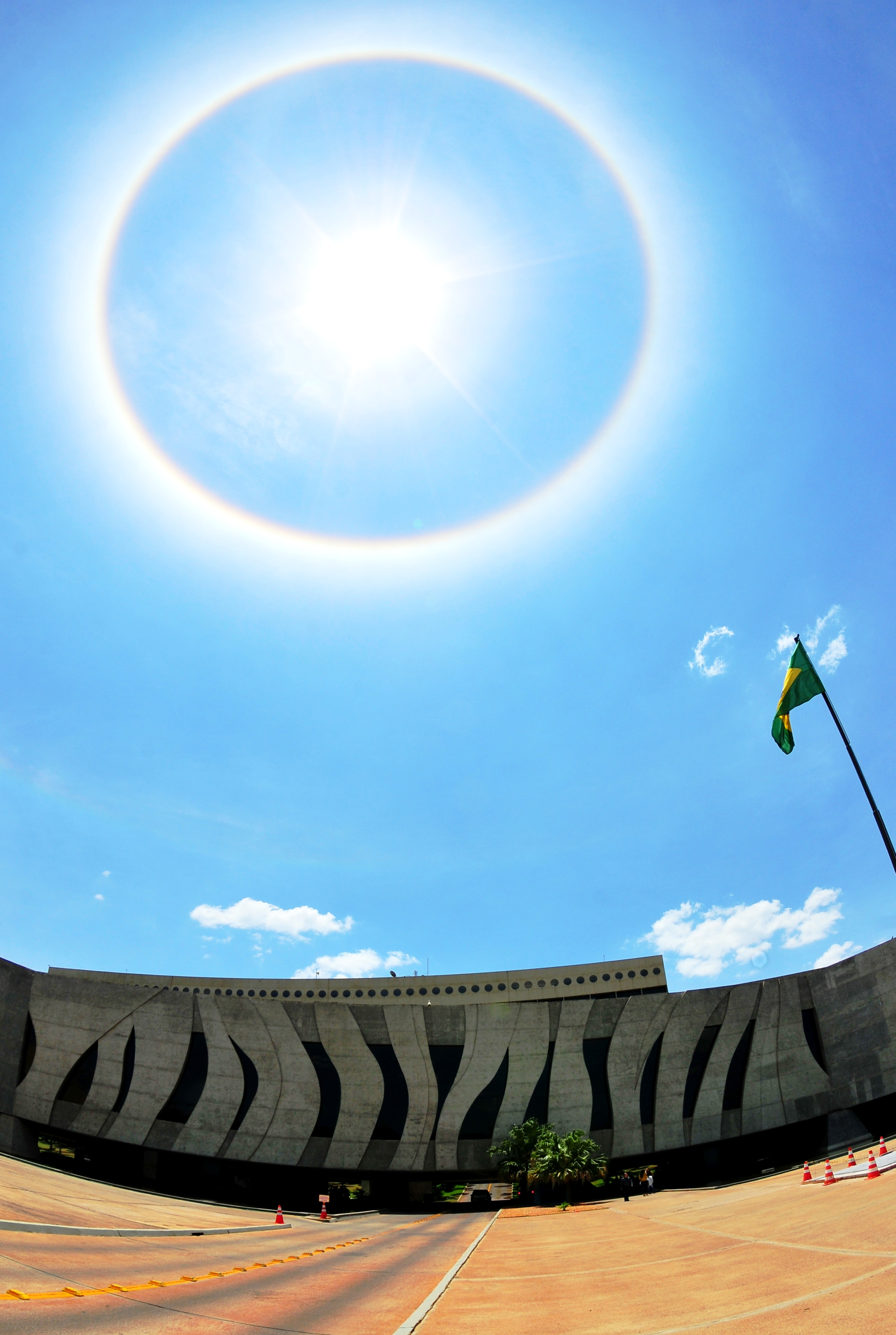 A halo shot at Brazilian High Court of Justice (STJ). Brasilia, Brazil.